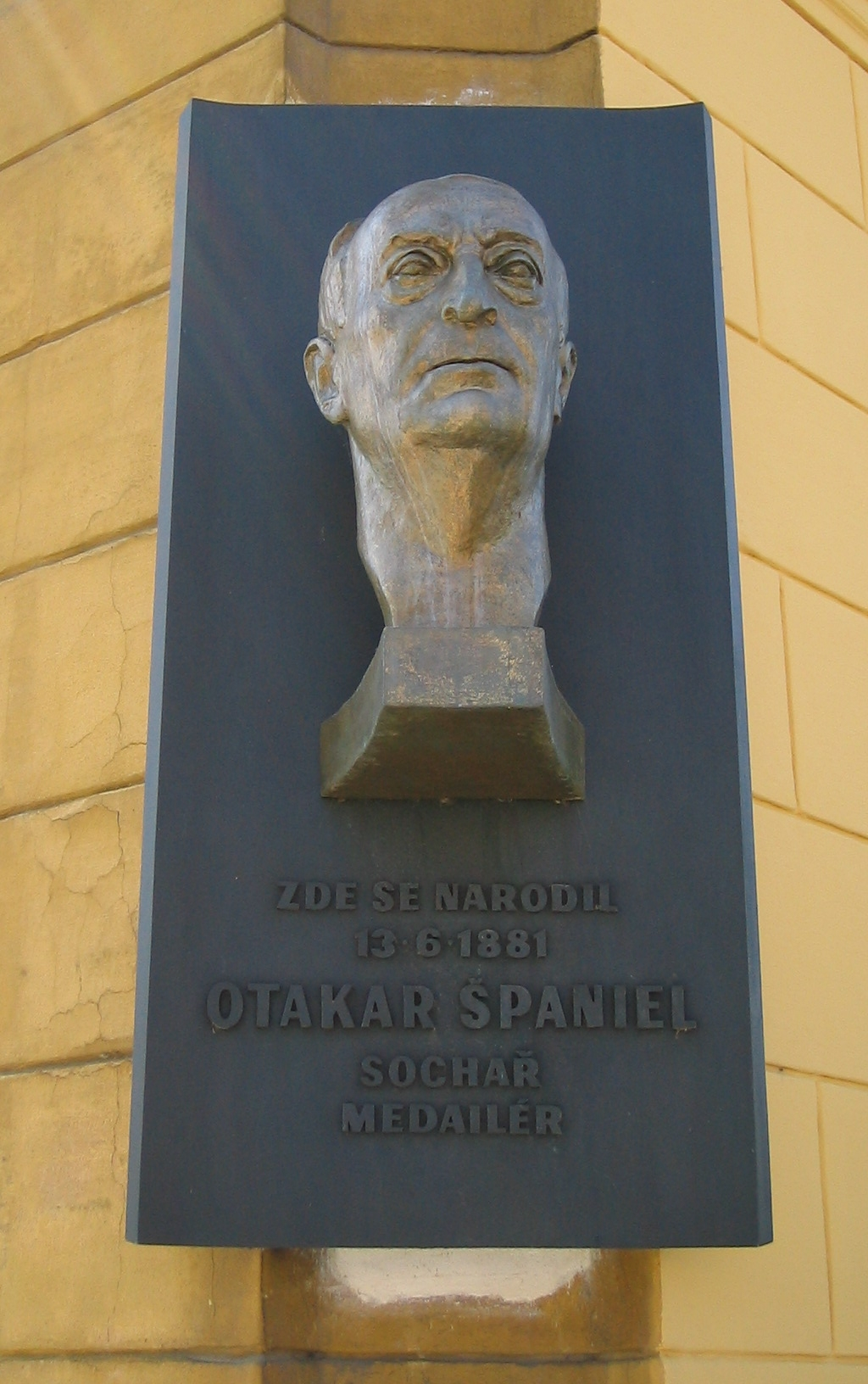 Memorial plaque to Otakar Španiel in Jaroměř